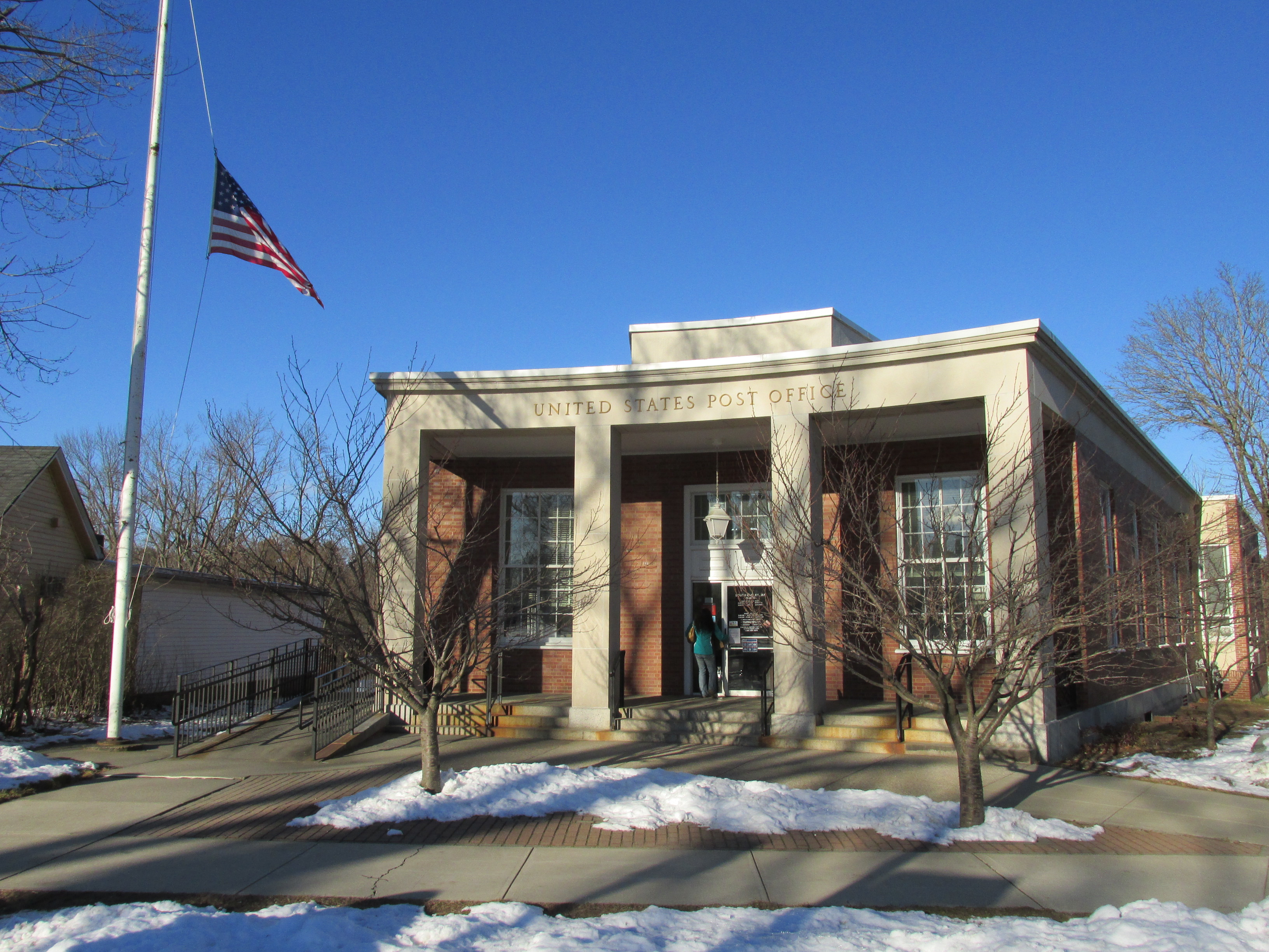 United States Post Office, South Hadley Massachusetts - MACRIS Listing